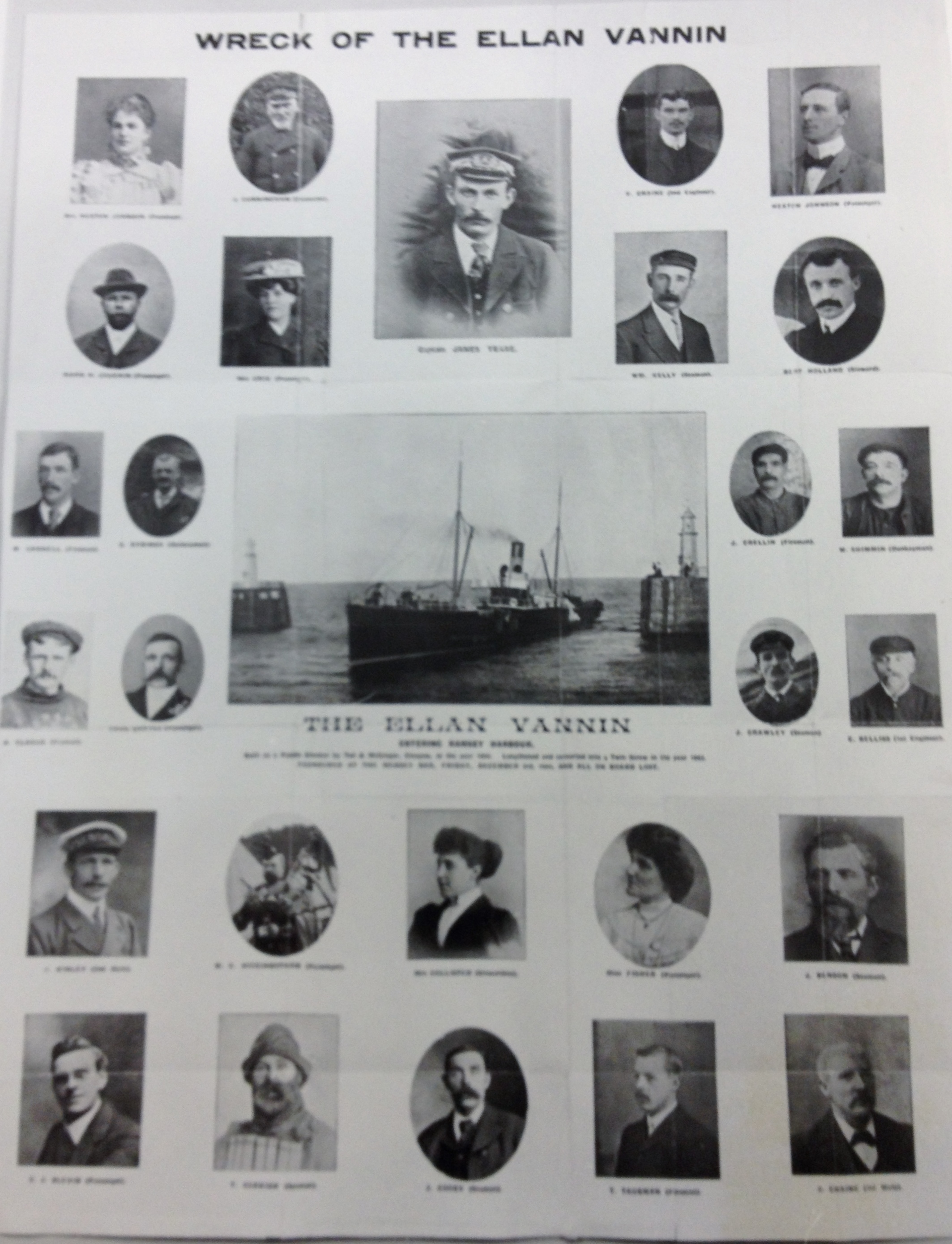 Picture of the crew of the Ellan Vannin.